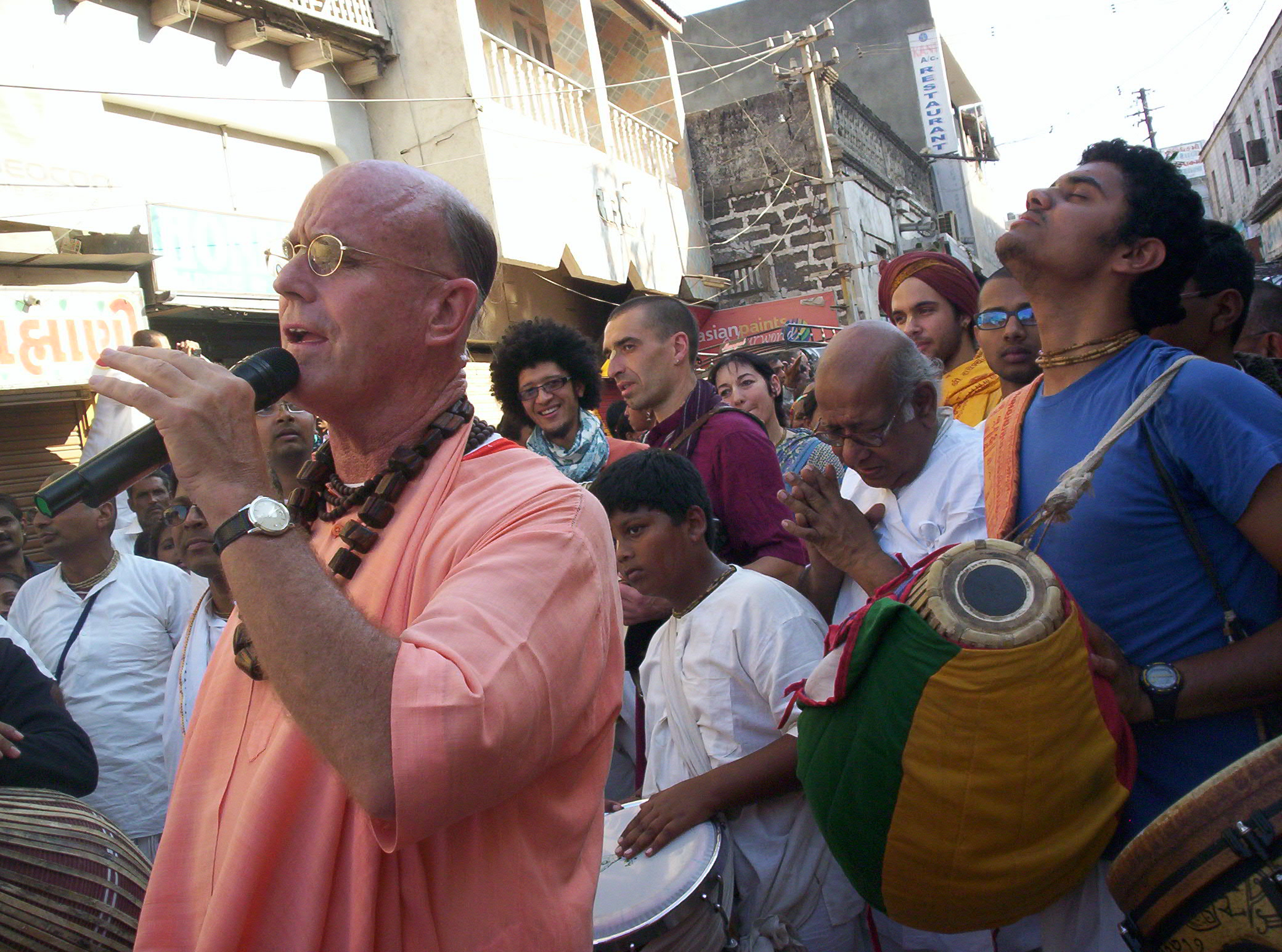 This photo has been taken in the country: India